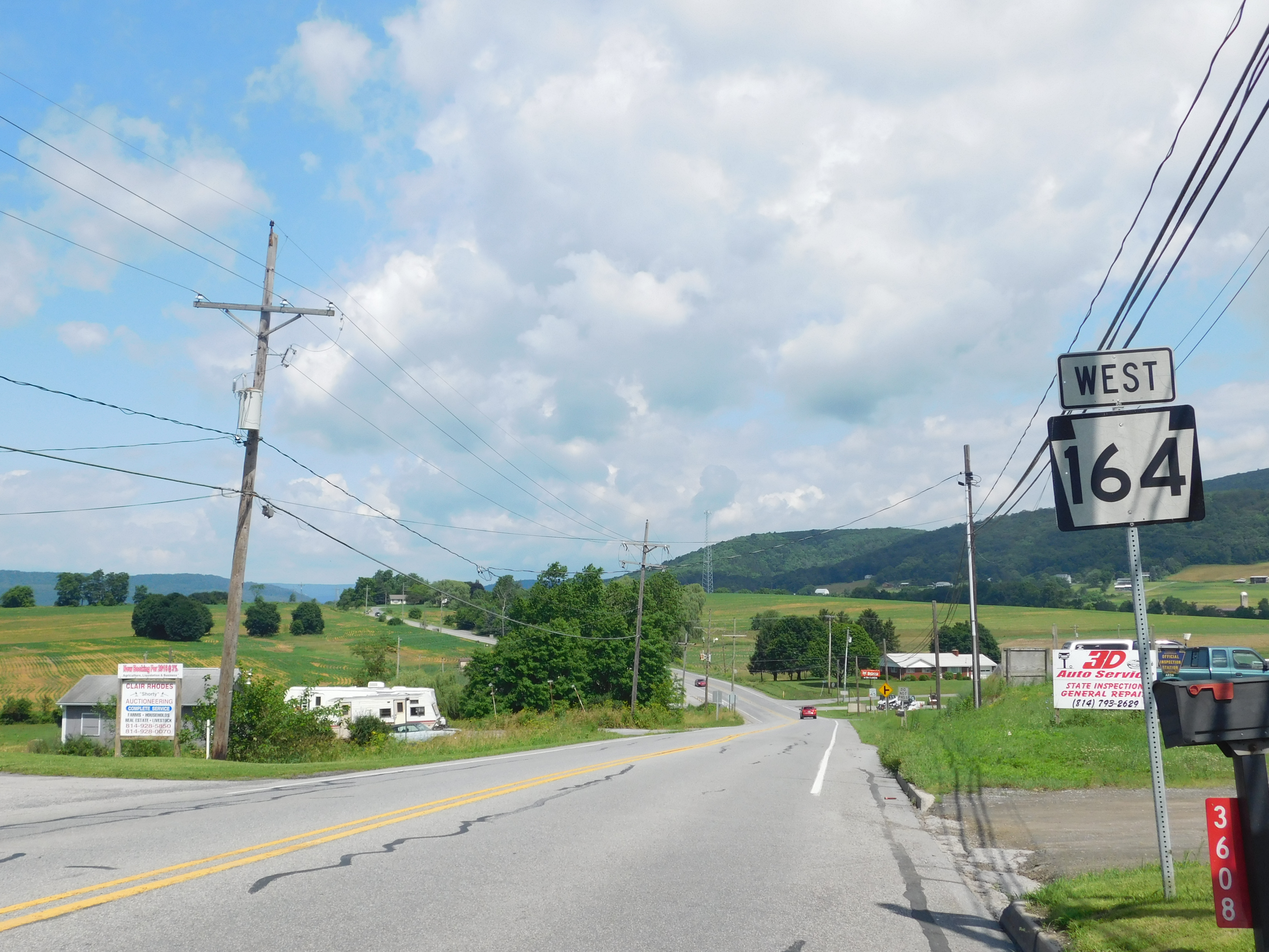 Route 164 in Martinsburg, Pennsylvania.